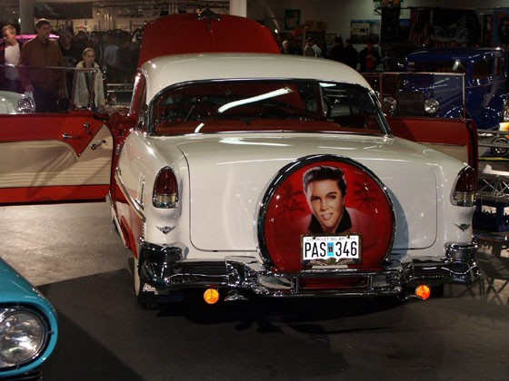 Taken by Raggardjavul with his father's digital camera (1955 Chevrolet Bel Air Series 2400C